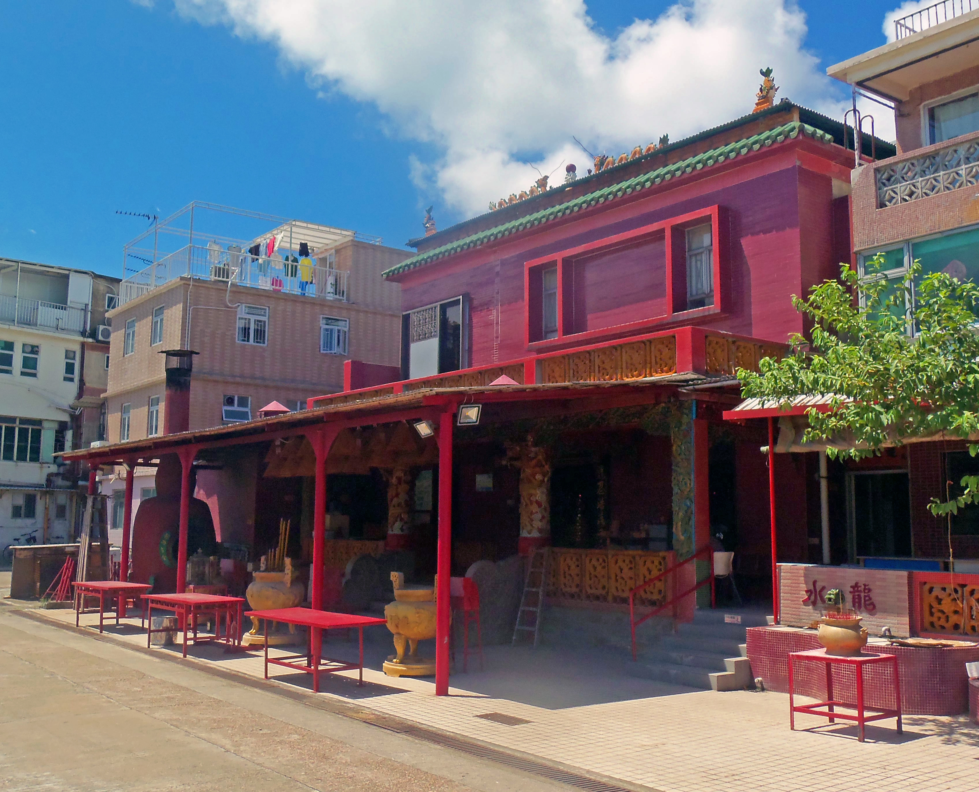 Temple to goddess Long Mu ("Lung Mo" in local transliteration) on Wing Tung Street on island of Peng Chau.